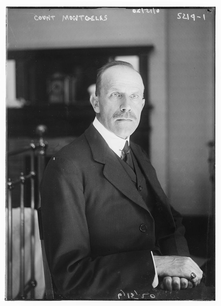 Max Montgelas circa 1920